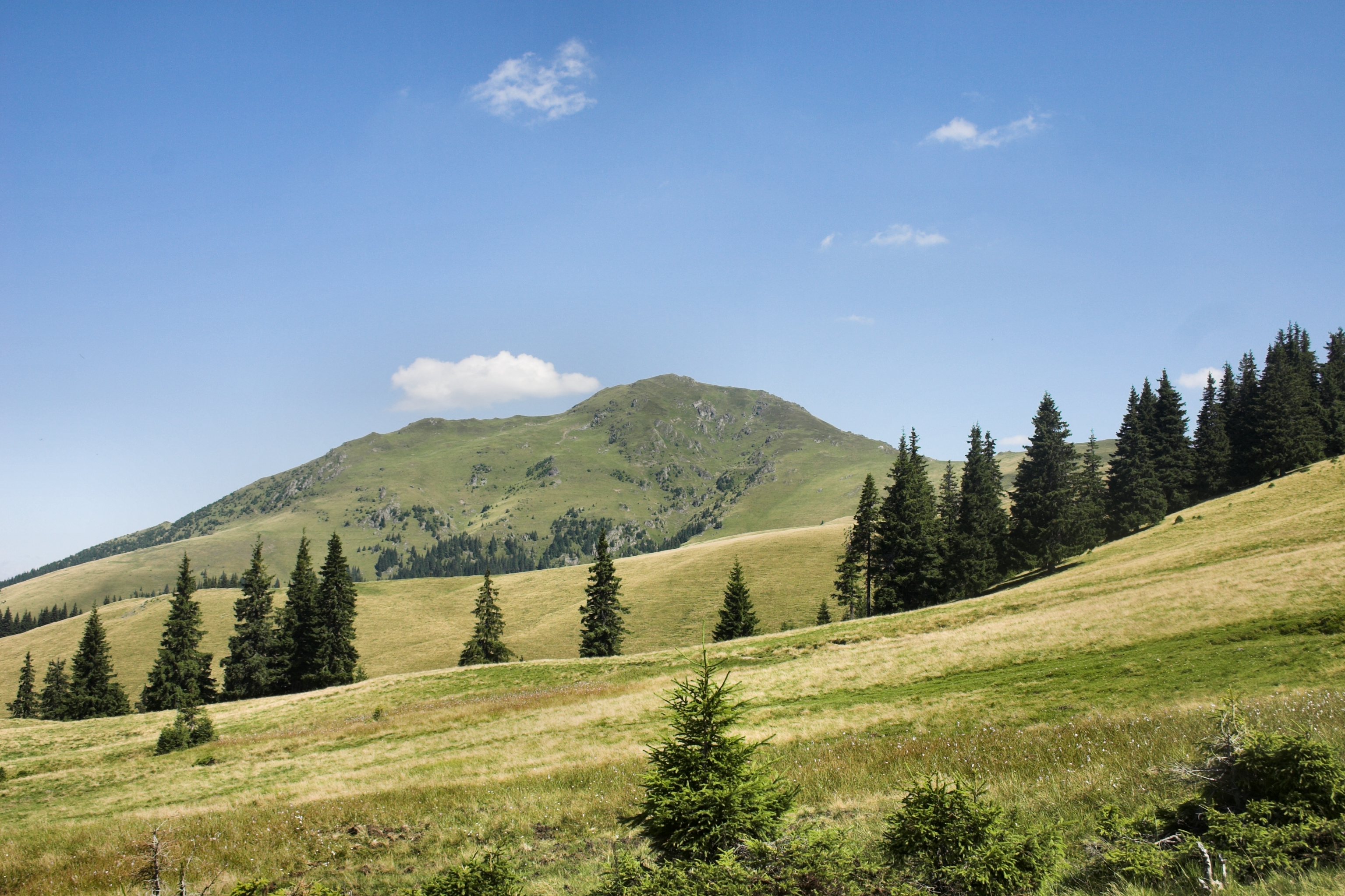 Vârful Farcău in Maramures Mountains from south.